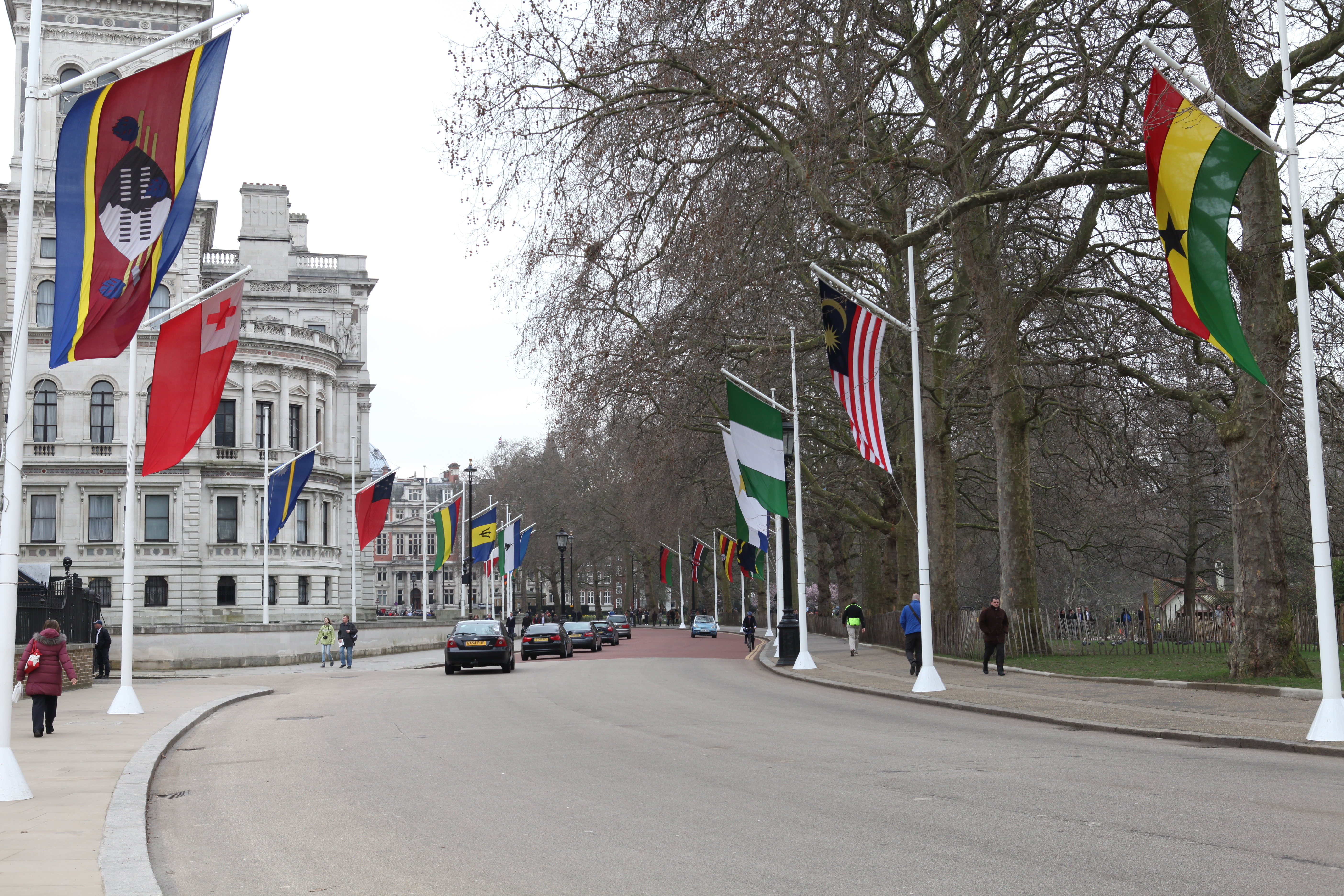 Flags of the Commonwealth flying in Horse Guards, London, 10 March 2014.